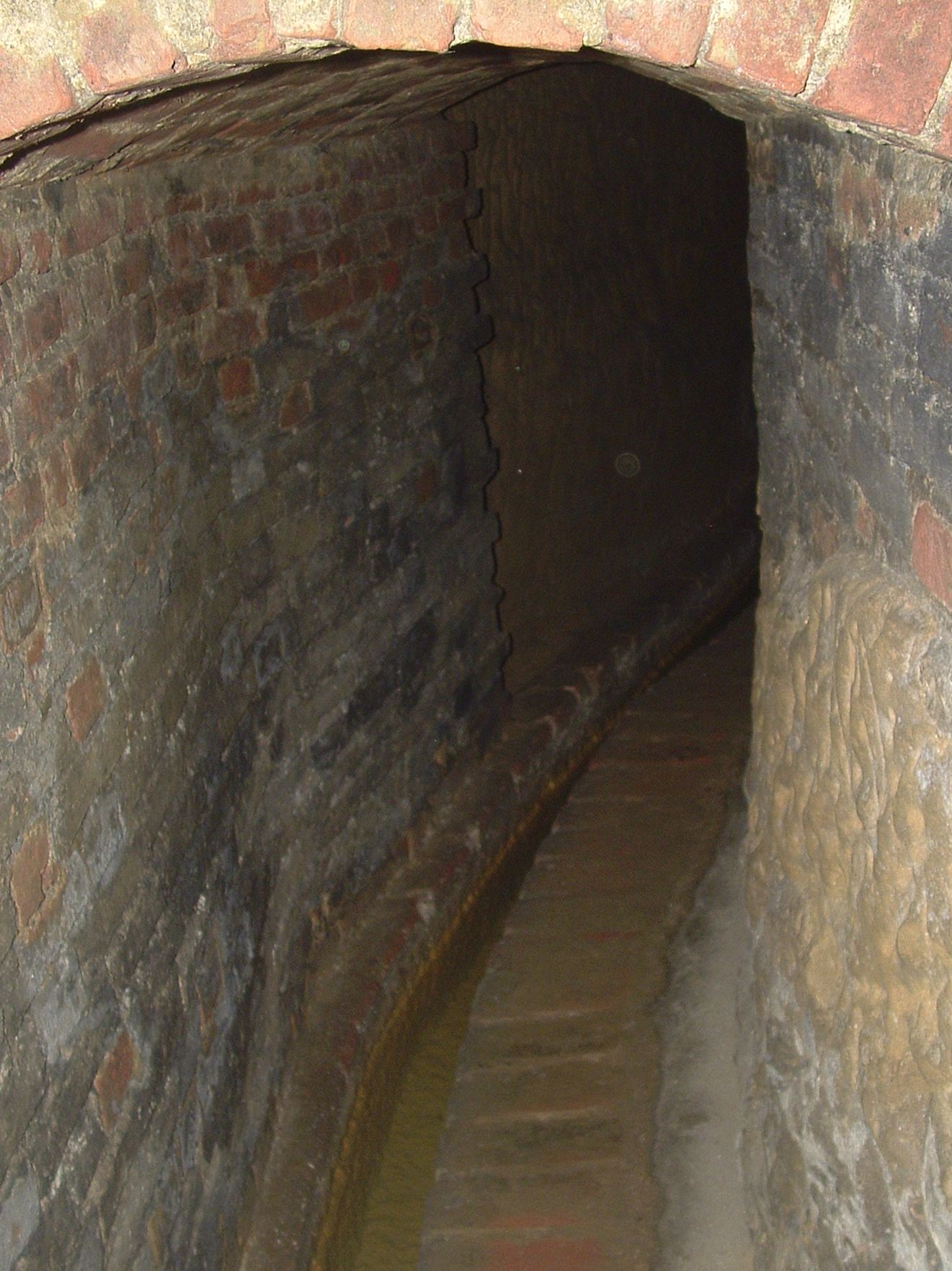 brick laid water channel Bottino, Bottini di Siena, Fonte Gaia channel, Siena, Tuscany, Italy